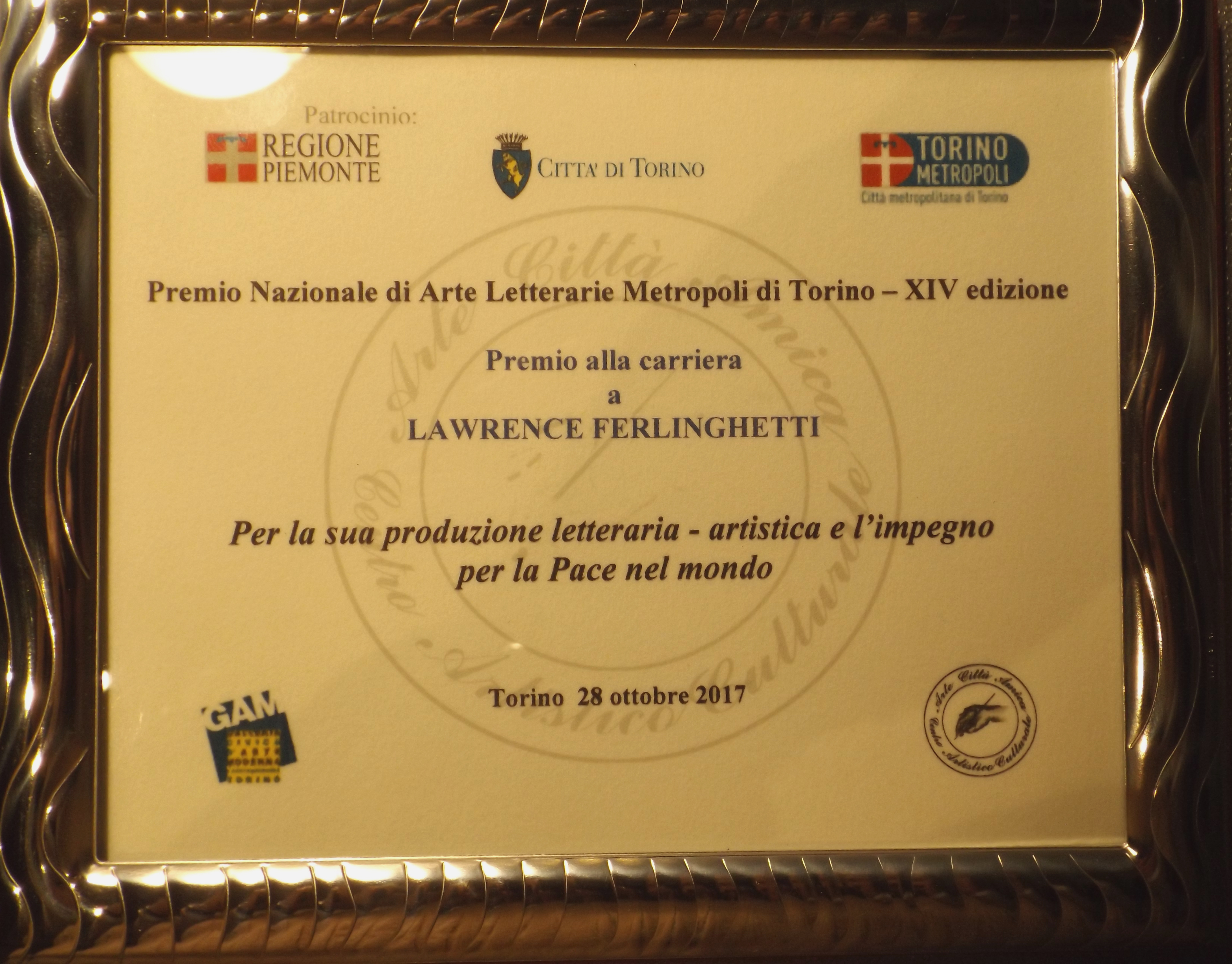 Career Award for Lawrence Ferlinghetti conferred on 28 October 2017 at the Metropolitan Literary Arts Prize of Turin, Italy, XIV edition